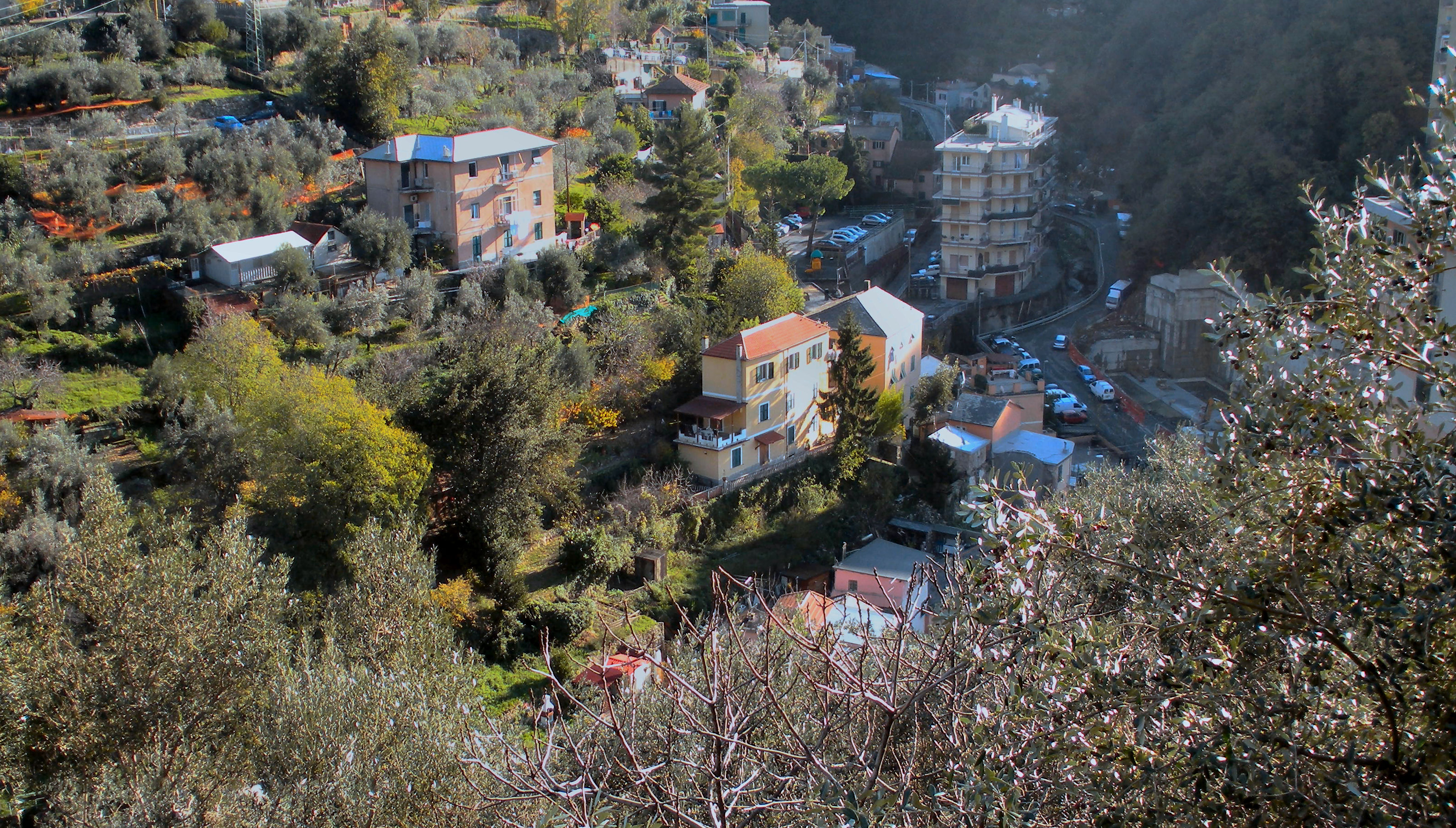 Genoa (Italy), quarter of Quezzi, view of Pedegoli